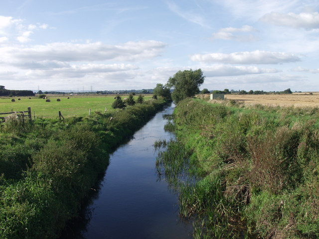 River Perry crosses Baggy Moor The "moor" has been artificially drained and the river would have been straightened then. Much of the soil is peaty, or sandy peaty, or sandy as one would expect in a drained moor.